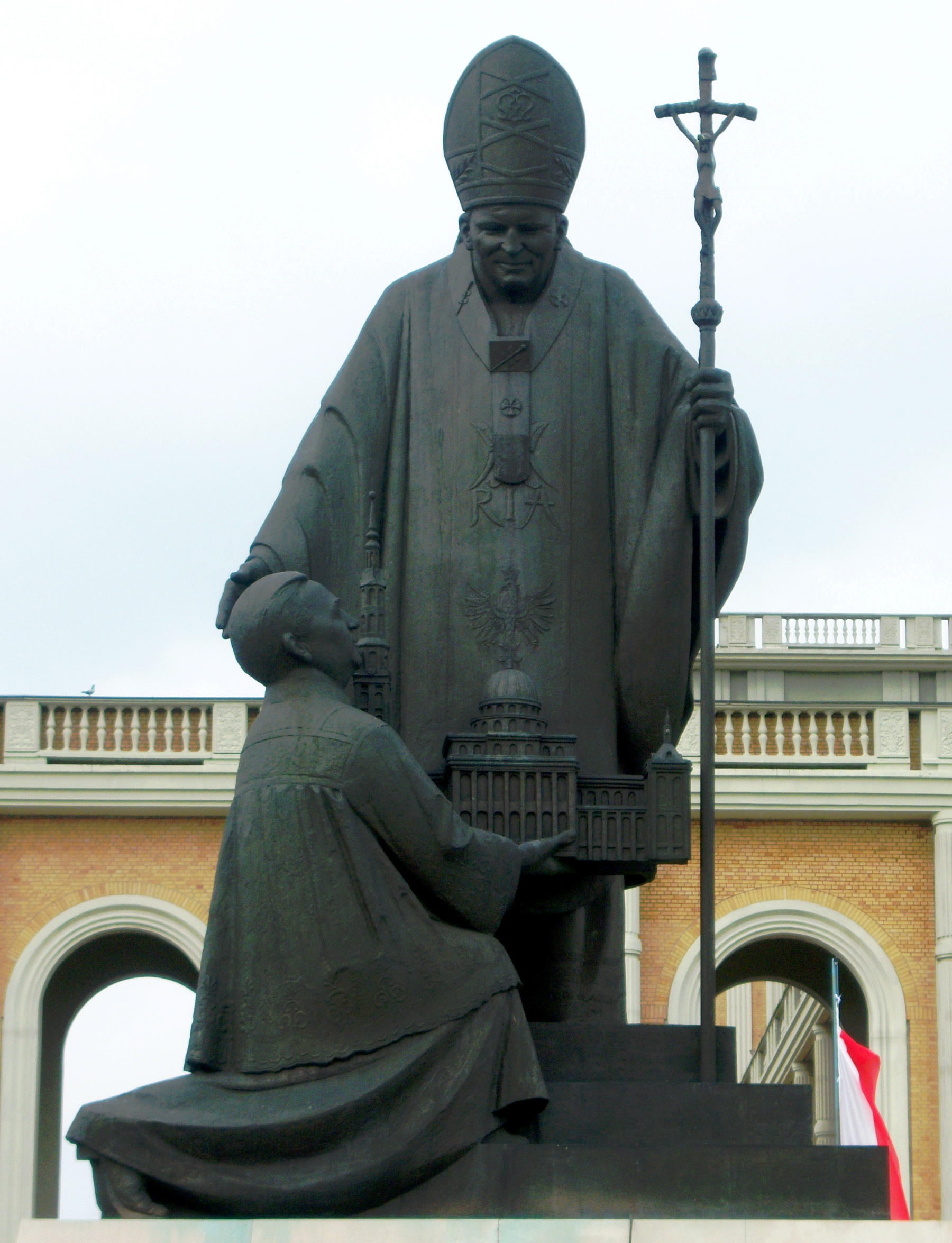 Monument of John Paul II near Sanctuary of Our Lady of Licheń Stary in Poland